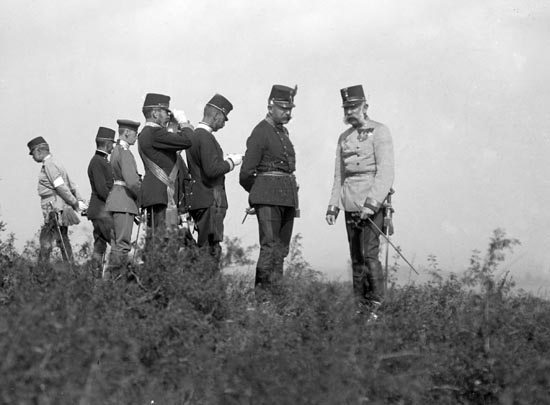 Emperor Franz Joseph of Austria and Count Friedrich von Beck-Rzyikowsky 1830-1920 colonel general (chief of staff of the Imperial and Royal Army of Austria-Hungary 1881-1906), supervising army manoeuvres in Bystřice pod Hostýnem (German Bistritz am Hostein)